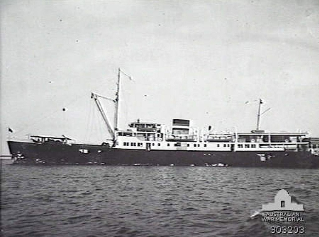 Port side view of the American passenger motor vessel Don Esteban. Note the prominent national flag painted on her hull to indicate her neutrality. (Naval Historical Collection) black & white photograph. "Australian War Memorial notice: Copyright expired - public domain—This term describes material held in the National Collection that is clearly out of the period of copyright protection. Material that has passed out of the period of copyright protection is known as being in the “public domain” and is free of known copyright restrictions."